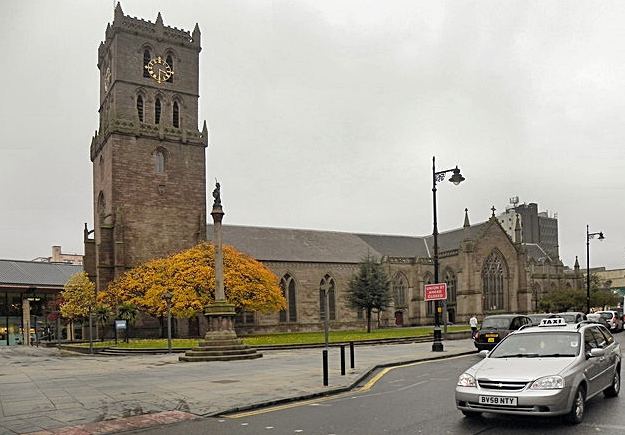 Dundee City Churches (Steeple Church)